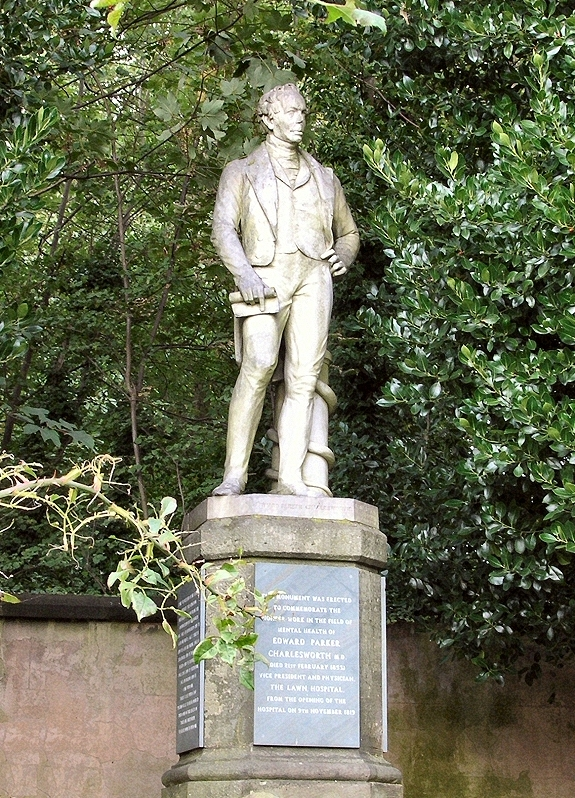 To the best of my knowledge there are only two public statues in Lincoln, this fine life-size marble one of Dr Edward Parker Charlesworth, a physician and life governor of the Lawn Hospital from 1820 until his death in 1853 by Thomas Milnes and standing in the grounds of the Lawn on the corner of Union Road and Carline Road, and one of Alfred Lord Tennyson on the Cathedral Green which can be seen here.